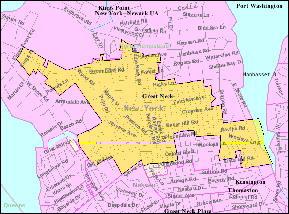 U.S. Census 2000 reference map for Great Neck, New York. The amber and light cross-hatched areas bordered in magenta indicate the census tracts included in the census-designated place. The amber-colored areas bordered in black indicate the extent of the incorporated Village of Great Neck. The extent of "Great Neck, New York" as the term is used by the United States Postal Service, local government and local residents includes all the incorporated and unincorporated areas of the entire Great Neck peninsula, as well as an area south of the peninsula extending to the border with Queens (New York City).